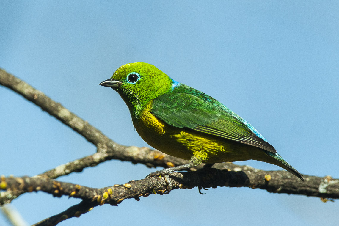 Blue-naped Chlorophonia - Itatiaia - Brazil_MG_1045